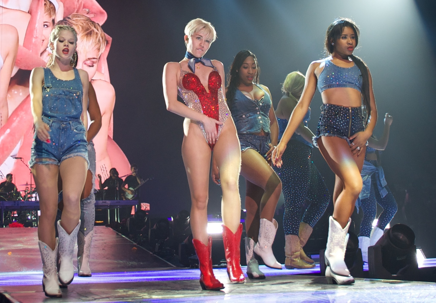 Miley Cyrus performing in Vancouver in 2014